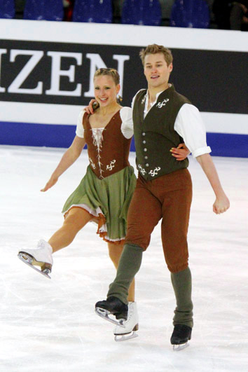 Stefanie Frohberg and Tim Giesen (GER) at the 2010 World Junior Figure Skating Championships.СD.